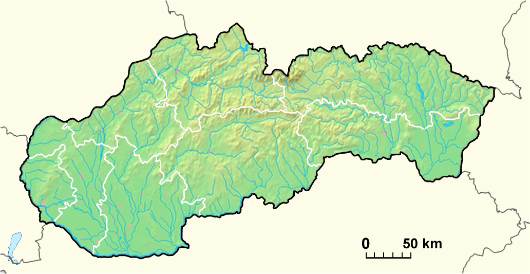 Slovakia White GEO Map